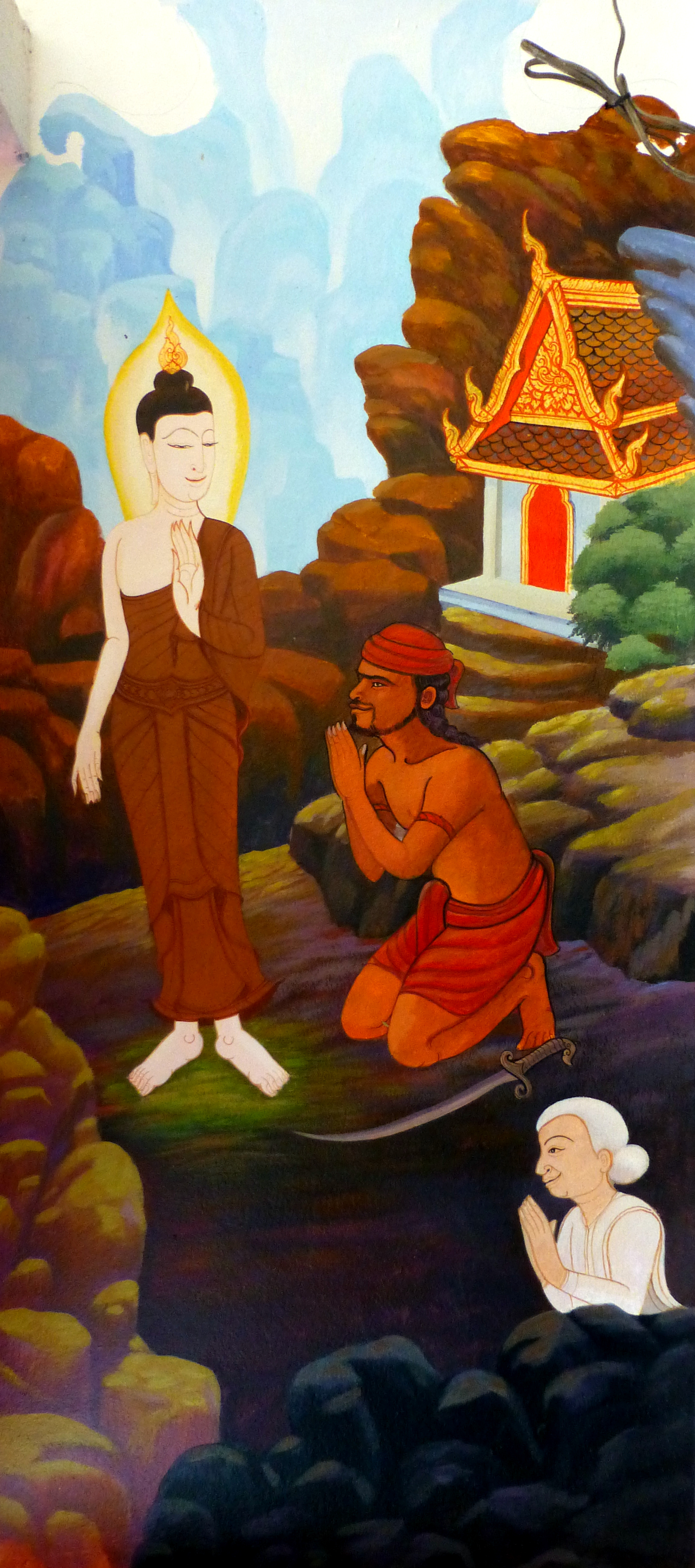 41 Angulimala, Wat Pangla, Sadao Dt., Songkhla Province, Thailand Photograph from Wat Pangla in Songhkla, Southern Thailand taken by Anandajoti.